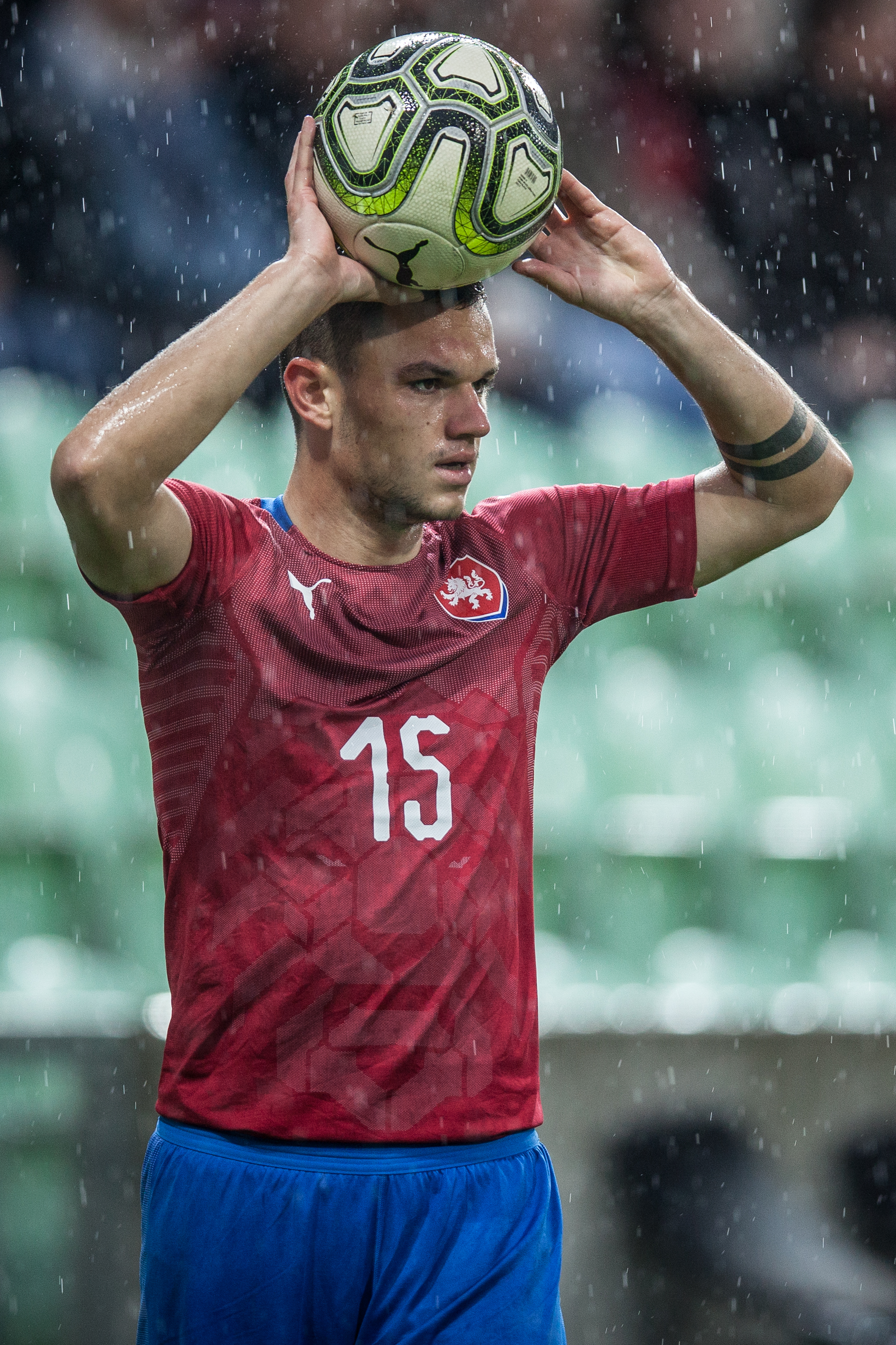 Daniel Souček playing for Czechia in European Under-21 Championship 2021 Qualifying Round between the Czech Republic and Greece [1:1] (10 October 2019, City stadium Karviná, Karviná District, Moravian-Silesian Region, Czechia) Soutěžní kategorie: Člověk